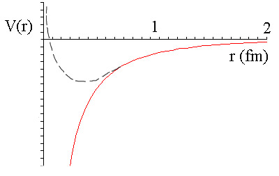 Chart of the Yukawa potential.